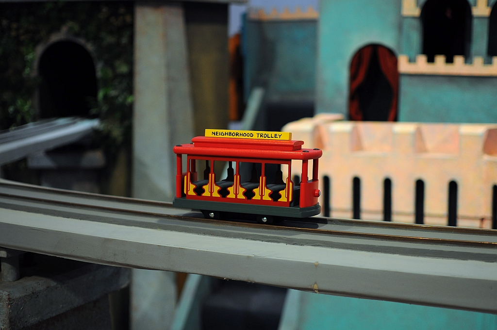 David Pinkerton Follow Neighborhood Trolley Shot taken during the "Neighborhood of Make-Believe Tour" at WQED studios in Pittsburgh. This is the first public tour of the Mister Rogers sets in eight years.